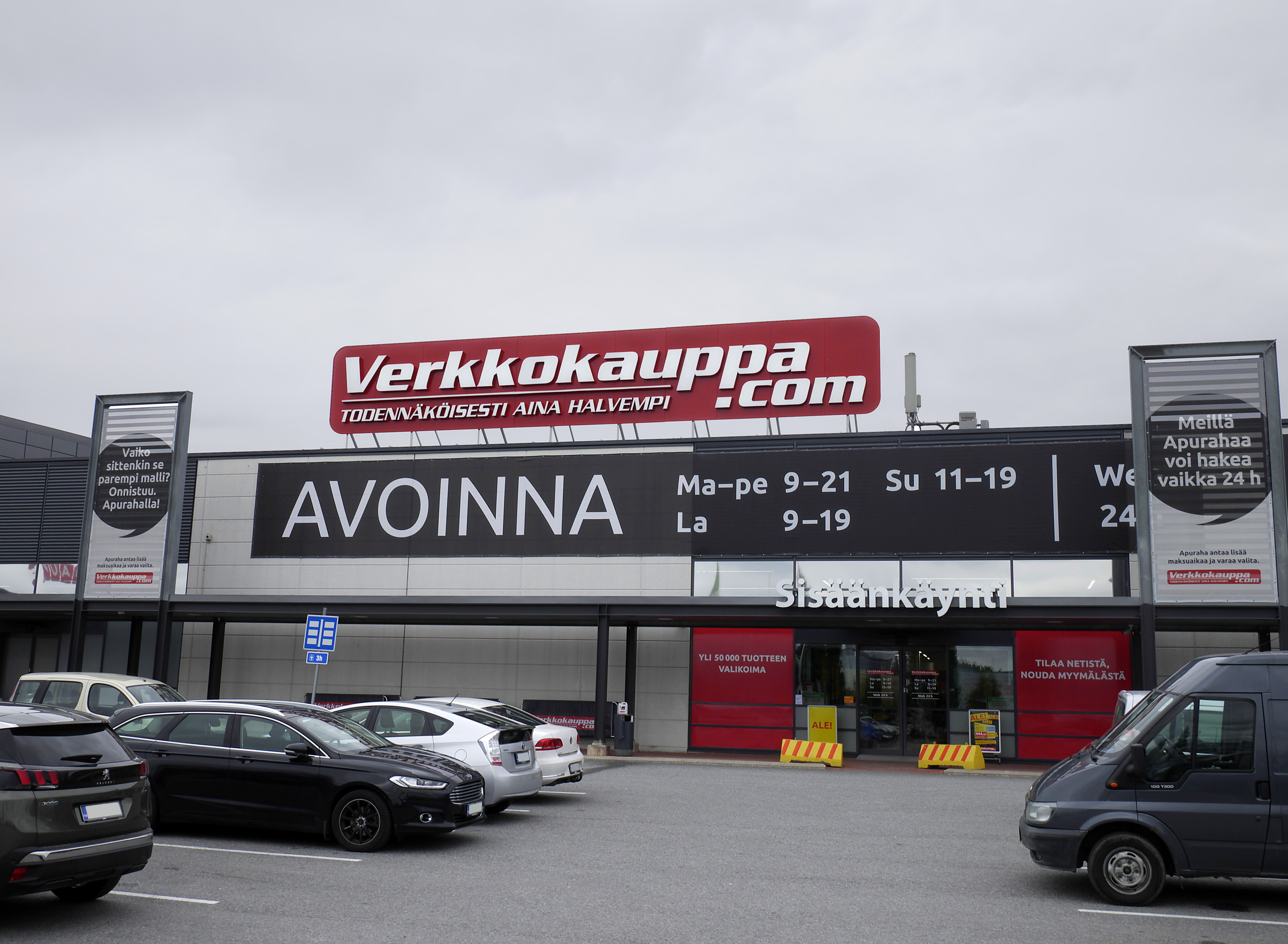 store in Pirkkala, Finland.